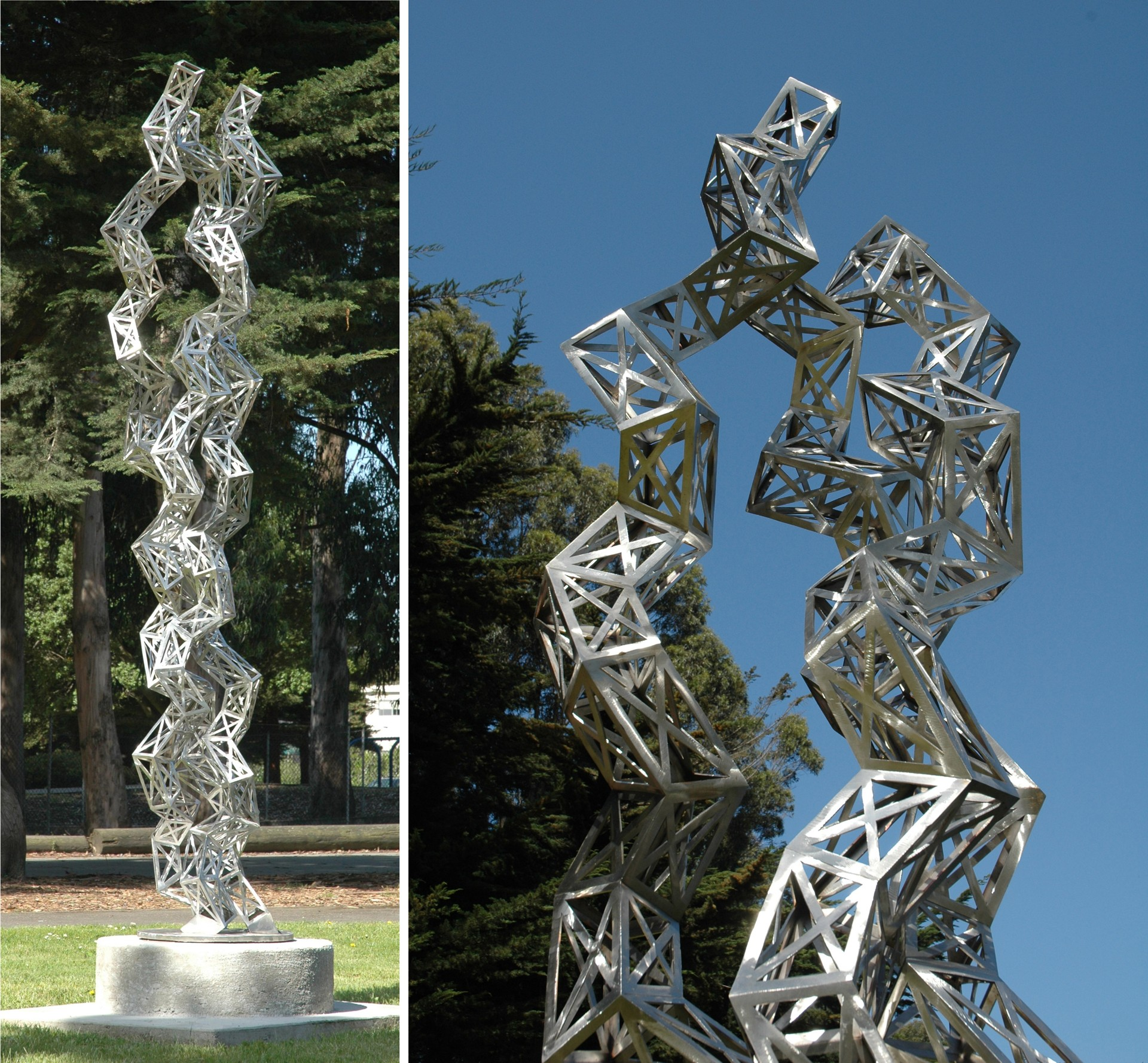 Julian Voss-Andreae Unraveling Collagen, 2005 Stainless steel, height 135" (3.40 m)